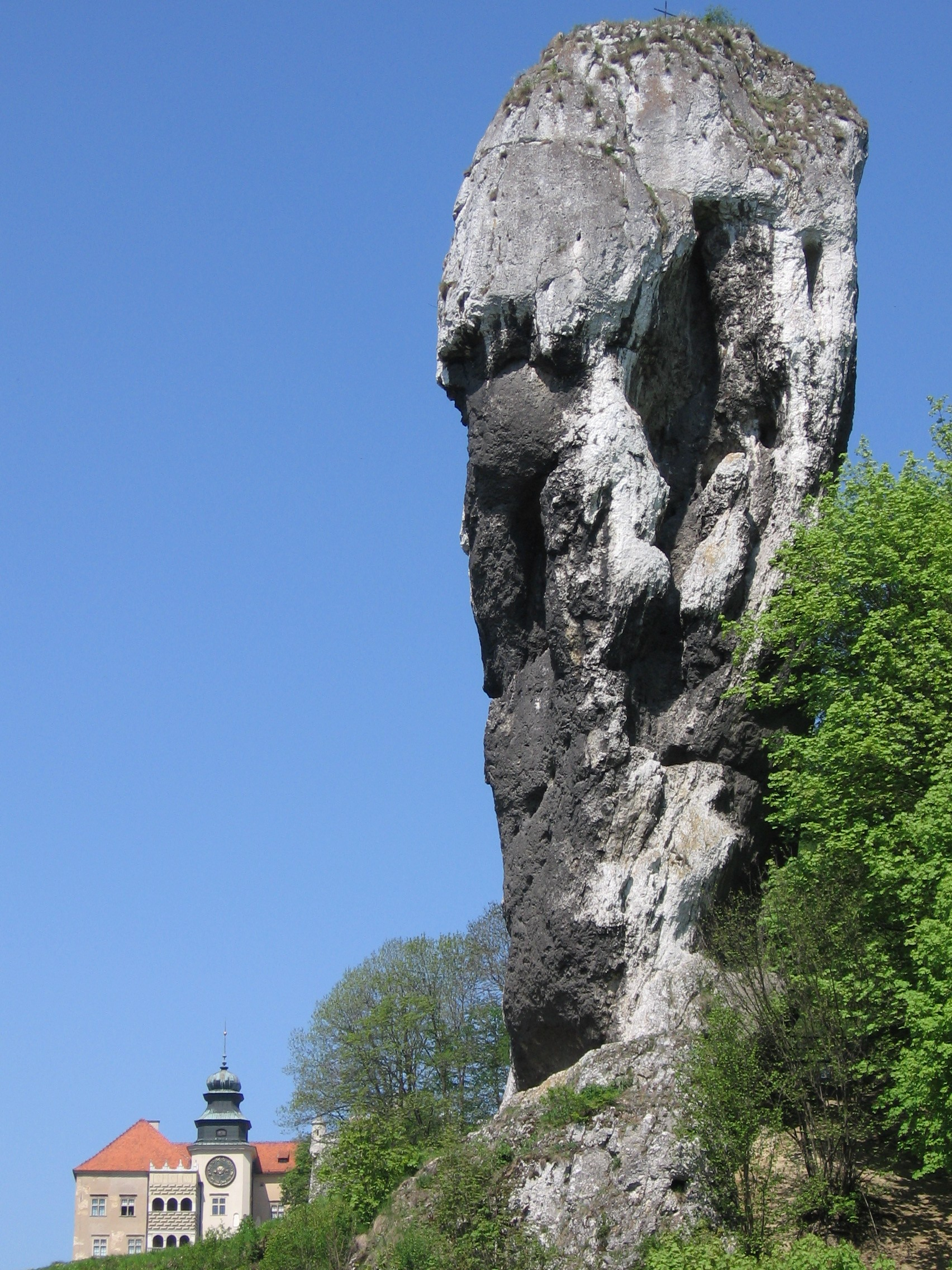 Maczuga Herkulesa (background Castle Pieskowa Skała)